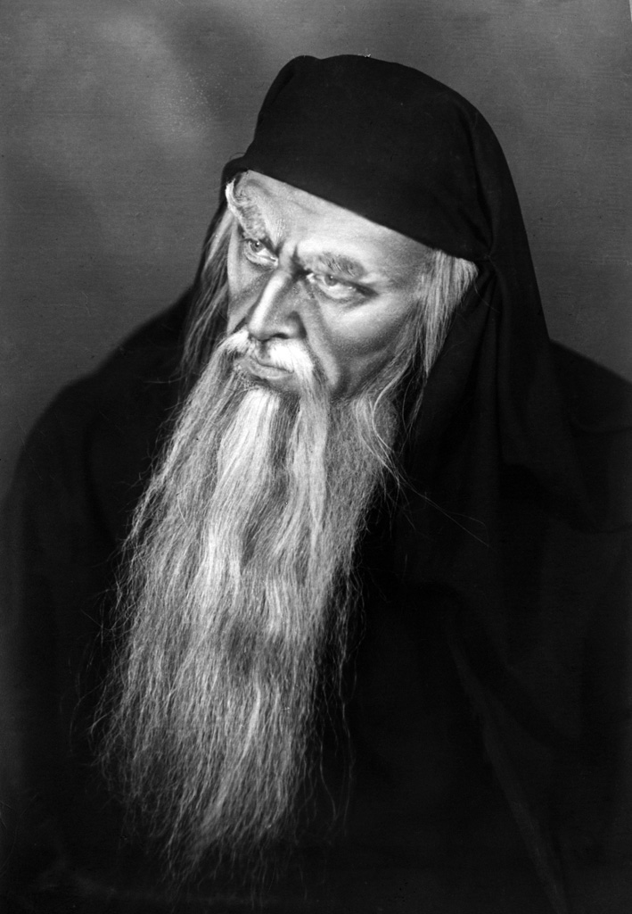 “Bolshoi Theater principal singer Alexander Ognivtsev as Dosifey in Modest Mussorgsky's opera Khovanshchina”. Principal singer Alexander Ognivtsev as Dosifey in a scene from Modest Mussorgsky's opera Khovanshchina staged at the State Academic Bolshoi Theater of the USSR, now of Russia.